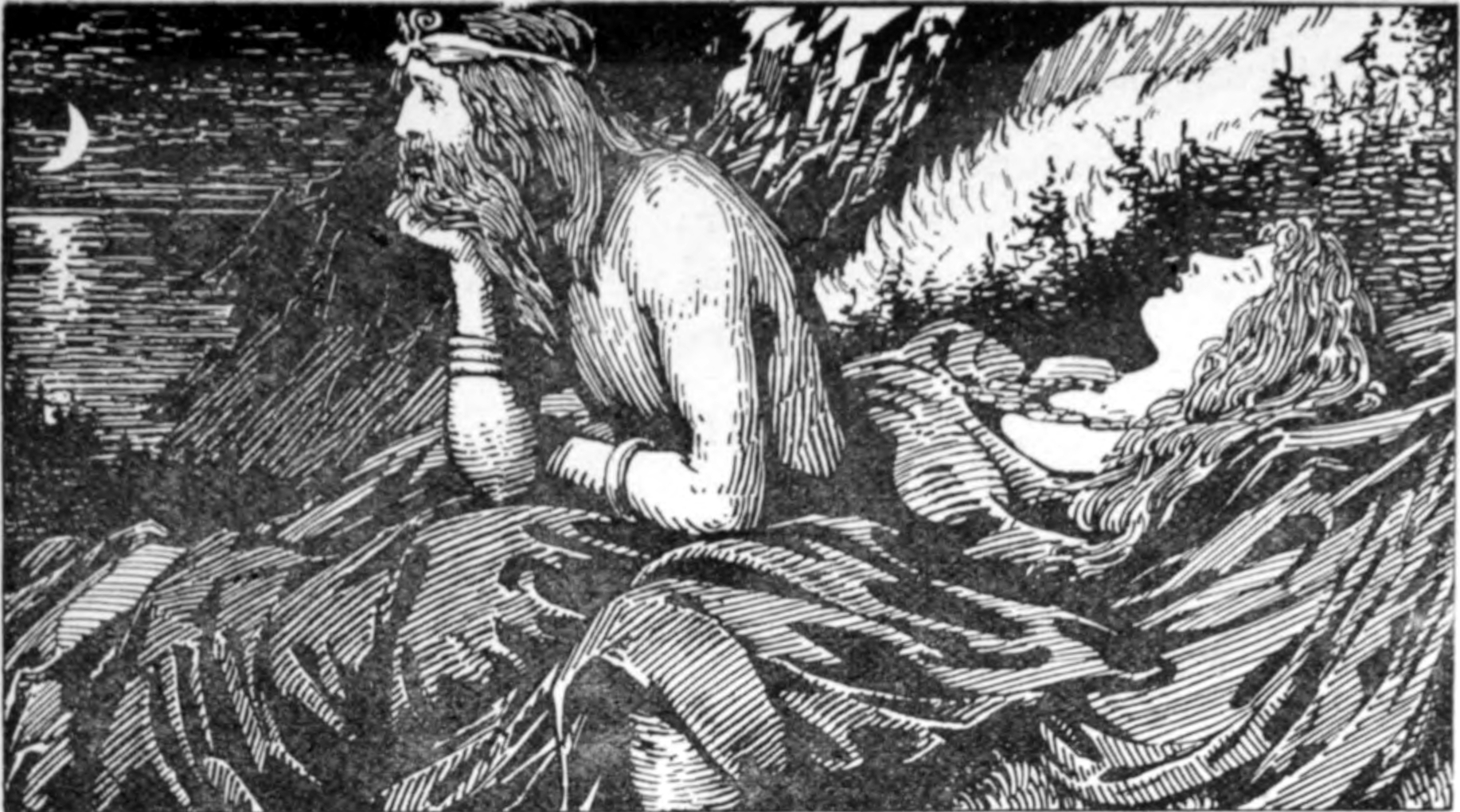 The god Njörðr is awake while his wife Skaði is asleep. They are up in the mountains. Njörðr is staring wistfully at the sea. The list of illustrations in the front matter of the book gives this one the title Njörd's desire of the Sea.